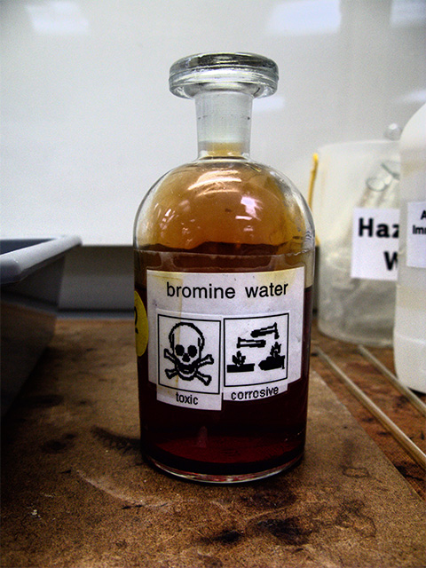 Bromine Water is a solution of bromine and water in which the water is saturated with bromine. This creates a layer of Br liquid at the bottom and a vapour layer on top.